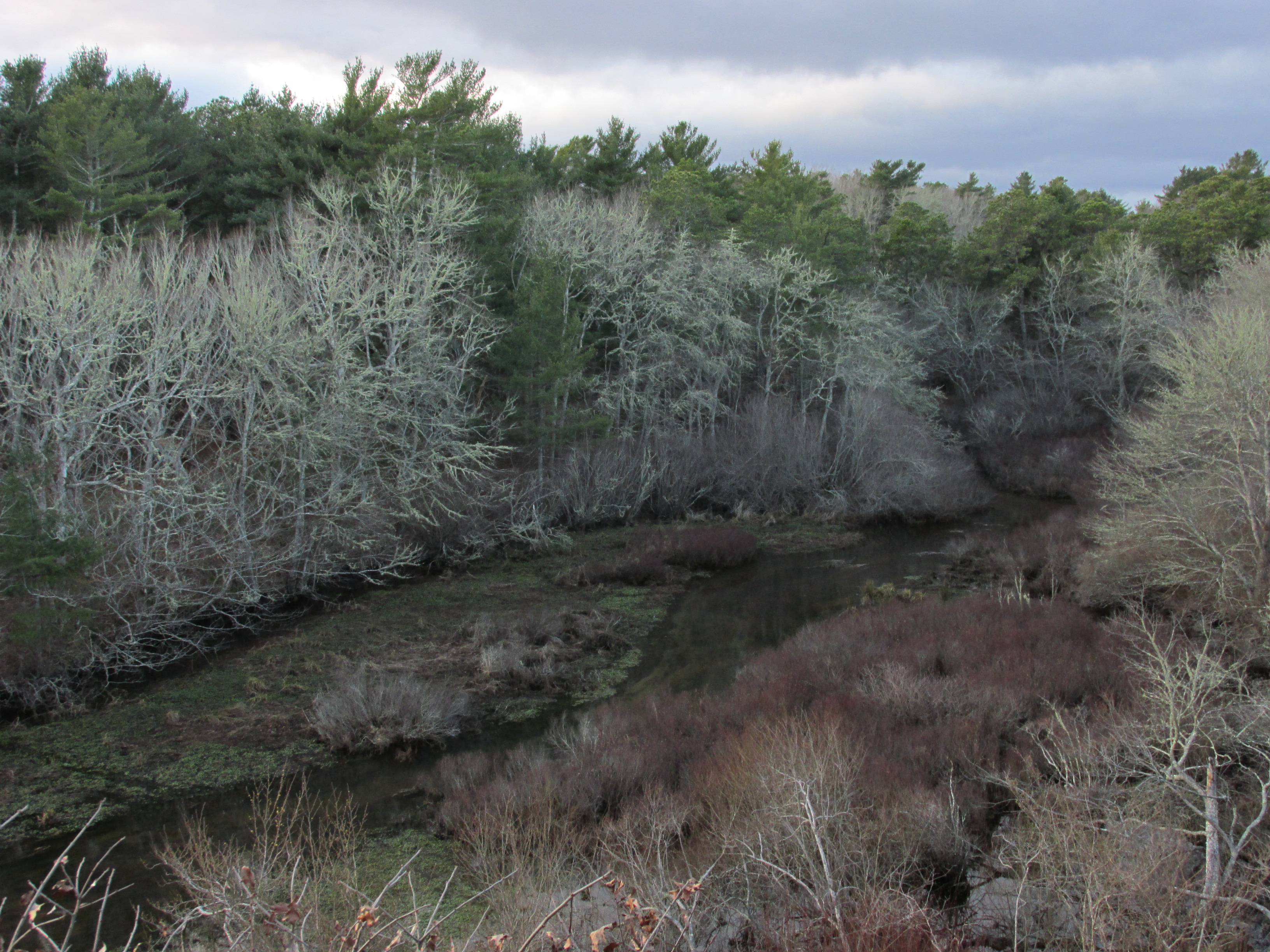 Mashpee River, Mashpee River Reservation, Mashpee Massachusetts